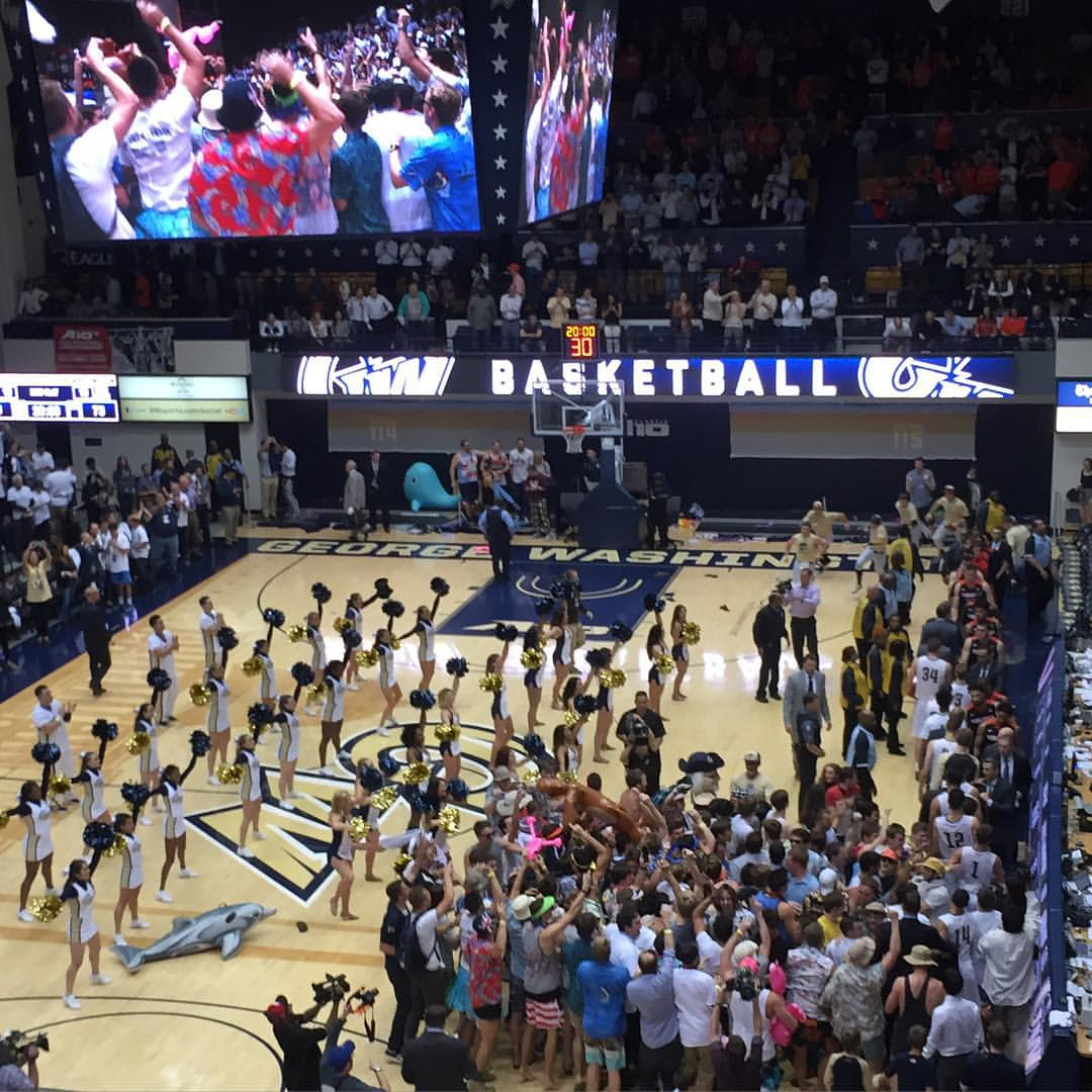 Fans storm the court after George Washington University defeats the University of Virginia in basketball at the Charles E. Smith Center, GW's home court in Washington, DC